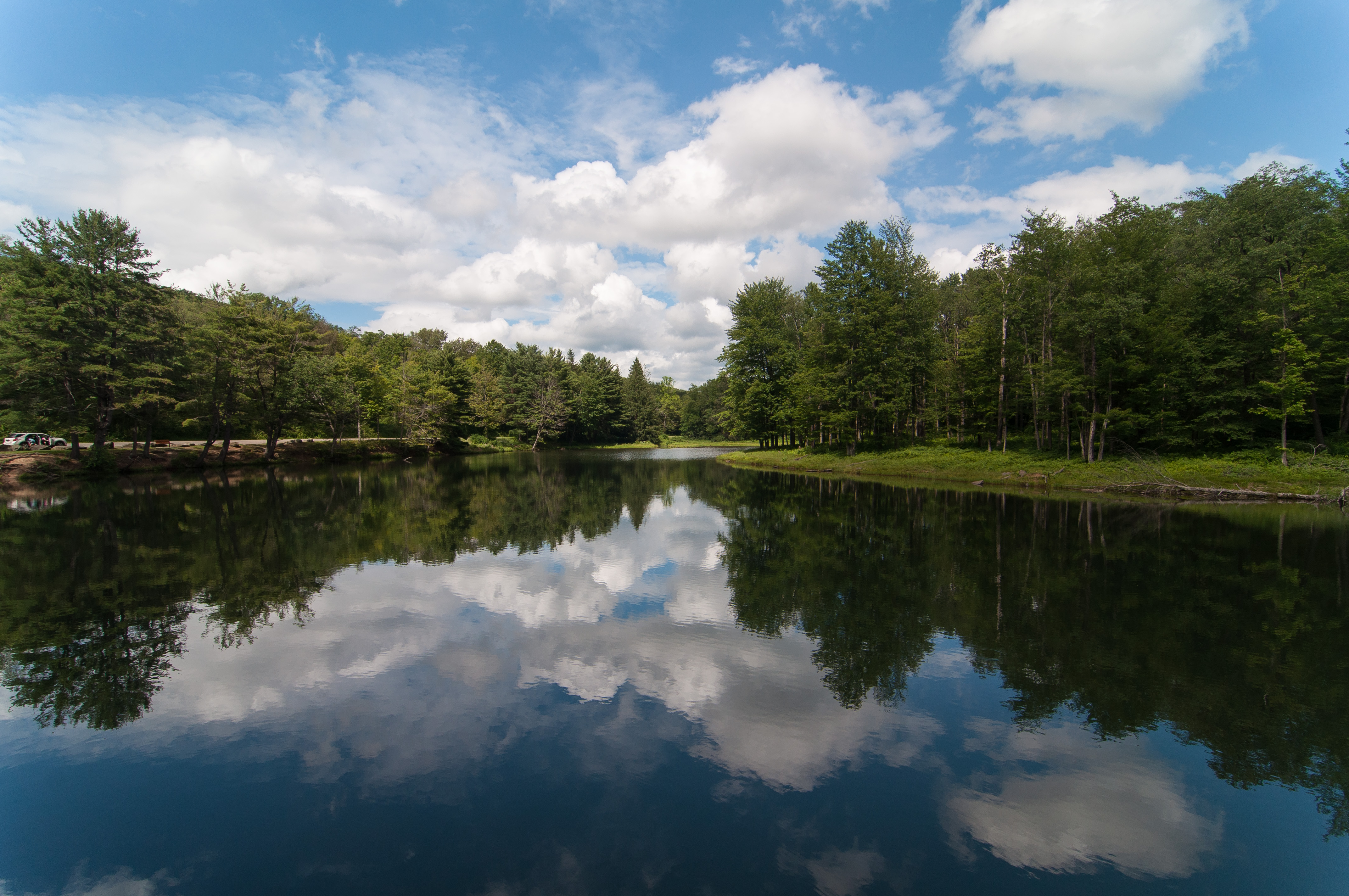 A view of Science Lake in Allegany State Park. The park is located near the city of Salamanca in Cattaraugus County in the southwestern part of New York State.